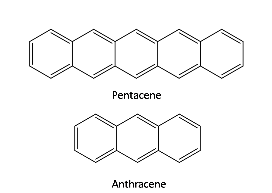 Semiconducting small molecules